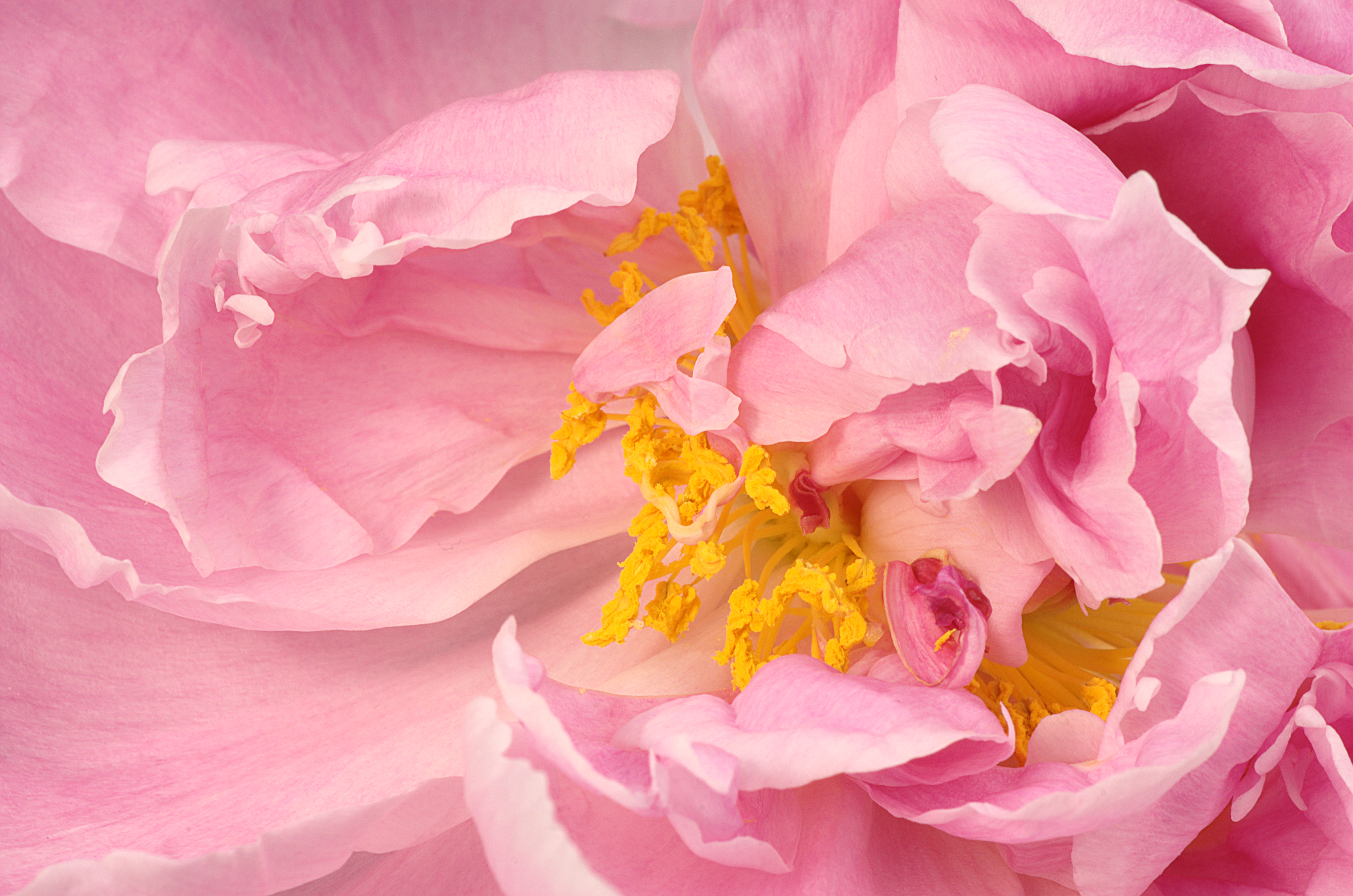 Detail of a Peony.